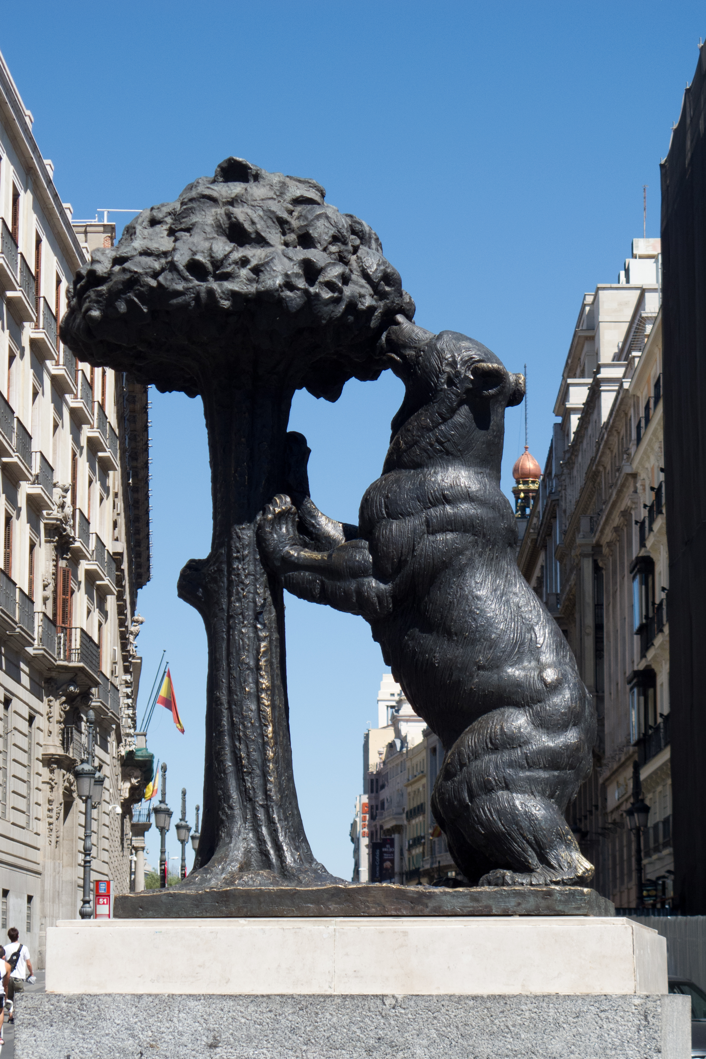 The bear and the Strawberry tree, Madrid, Spain.